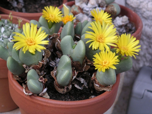 Personnal collection